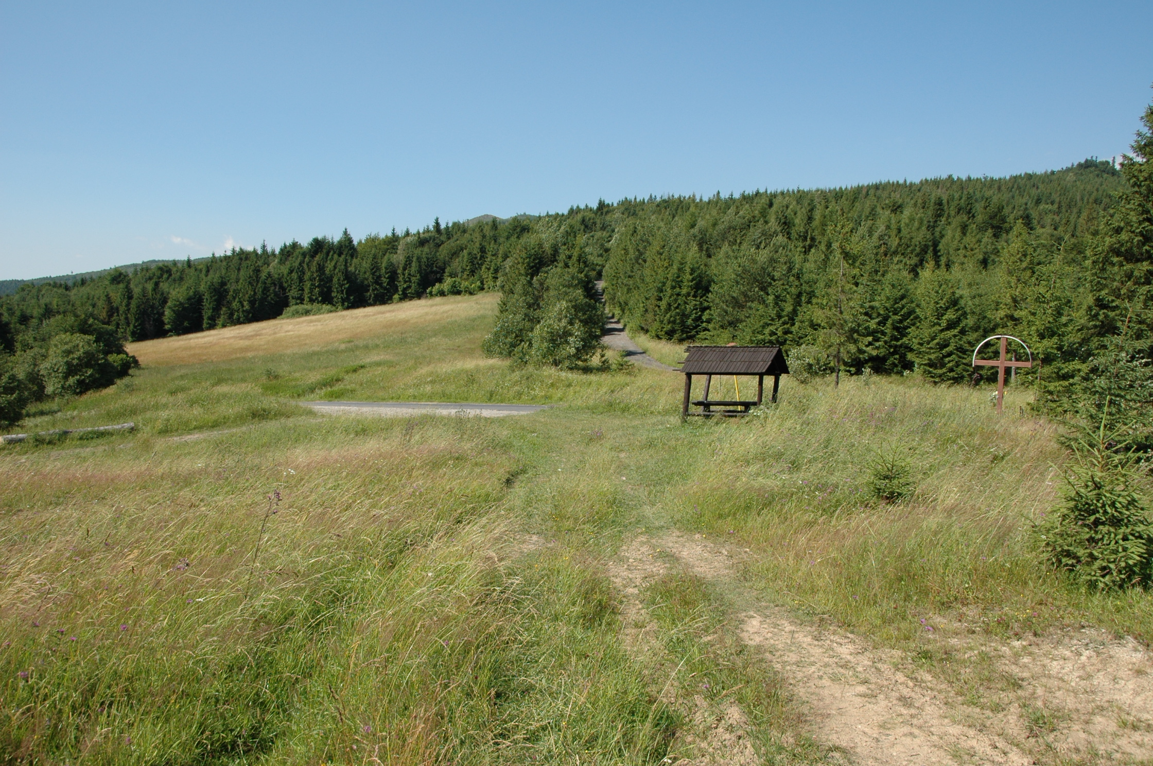 Toporecké sedlo, July 2008